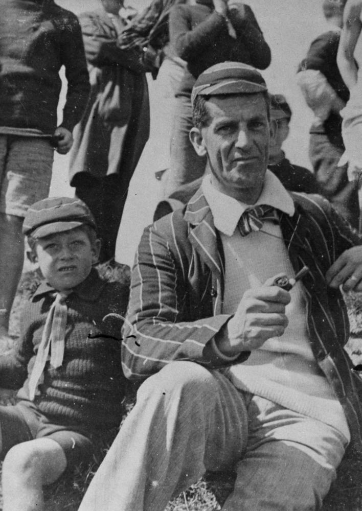 Reverend H. H. Dixon and his son Cecil at The Southport School on the Gold Coast, Queensland, 1907 Reverend H. H. Dixon and his son Cecil, wearing matching caps at The Southport School on the Gold Coast in 1907.